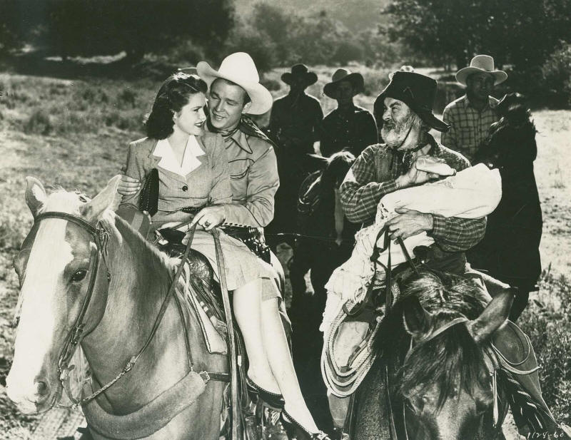 L. to R. : Helen Parrish, Roy Rogers & Gabby Hayes in Sunset Serenade - publicity still